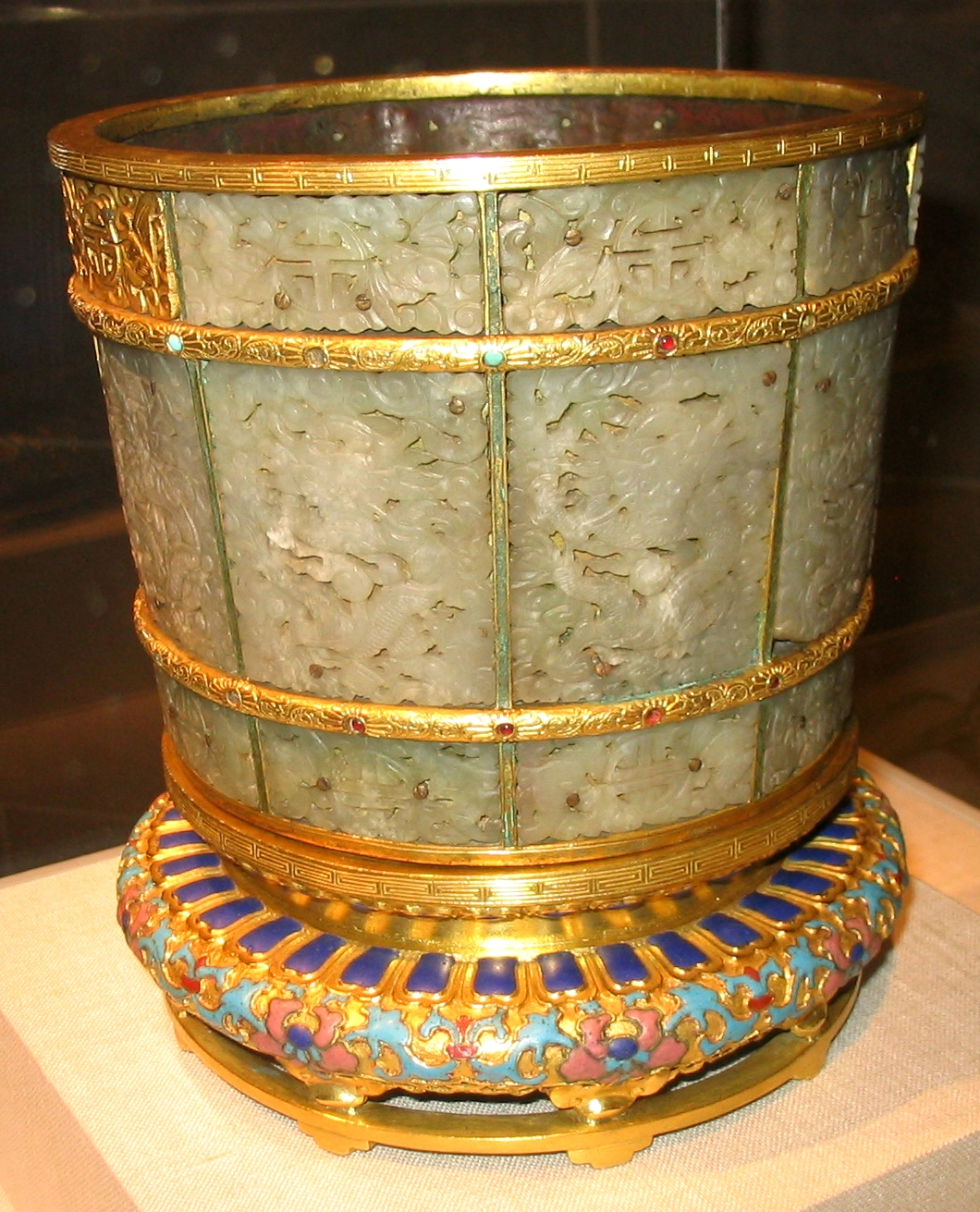 This gilt-metal and jade-inlaid pot was made in the Qianlong reign in the Qing Dynasty of China, during the 18th century. Materials include gilt metal, jade, and stone and glass beads. It is housed in the Arthur M. Sackler Gallery in the Smithsonian, Washington, D.C.